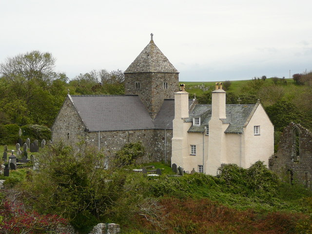 Penmon Priory